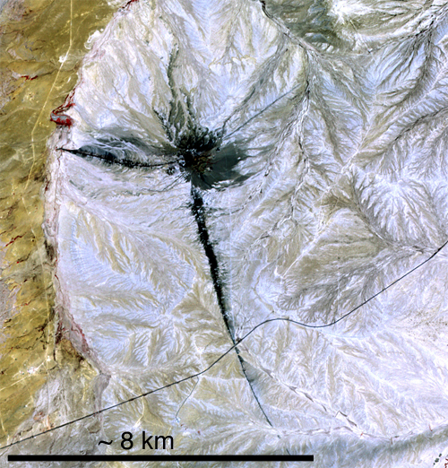 Cropped, marked, and lower-resolution version of NASA Visible Earth image of Ship Rock, about 20 km southwest of the town of Shiprock, New Mexico "This image of the Shiprock formation was captured by the Advanced Spaceborne Thermal Emission and Reflection Radiometer (ASTER) sensor on NASA’s Terra satellite on June 2, 2006. The image is not photo-like … …"